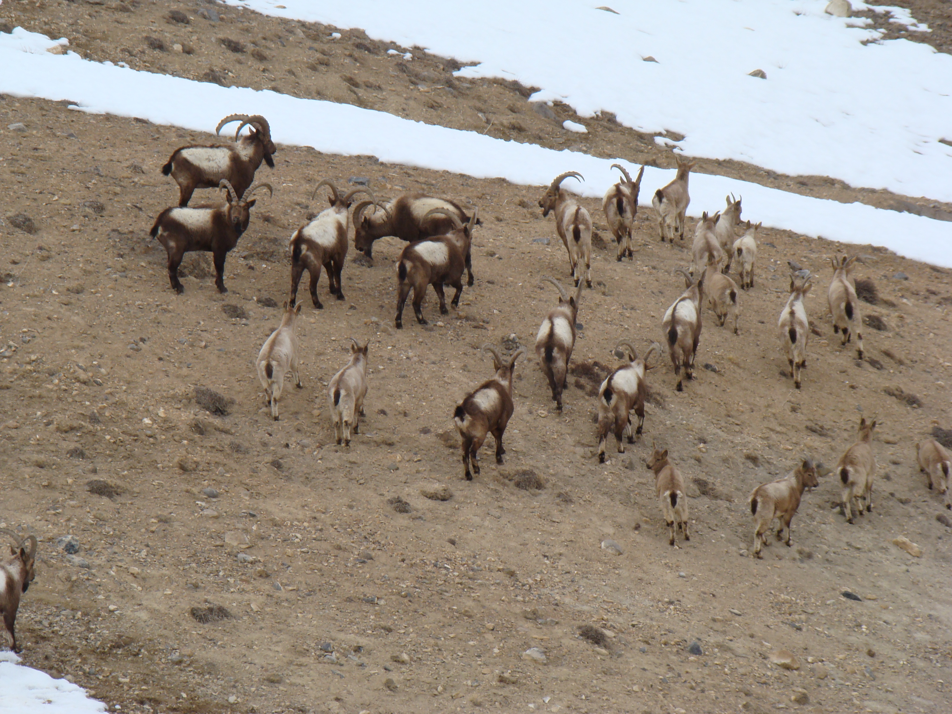 Siberian ibex in Himalaya, Spiti Valley, India